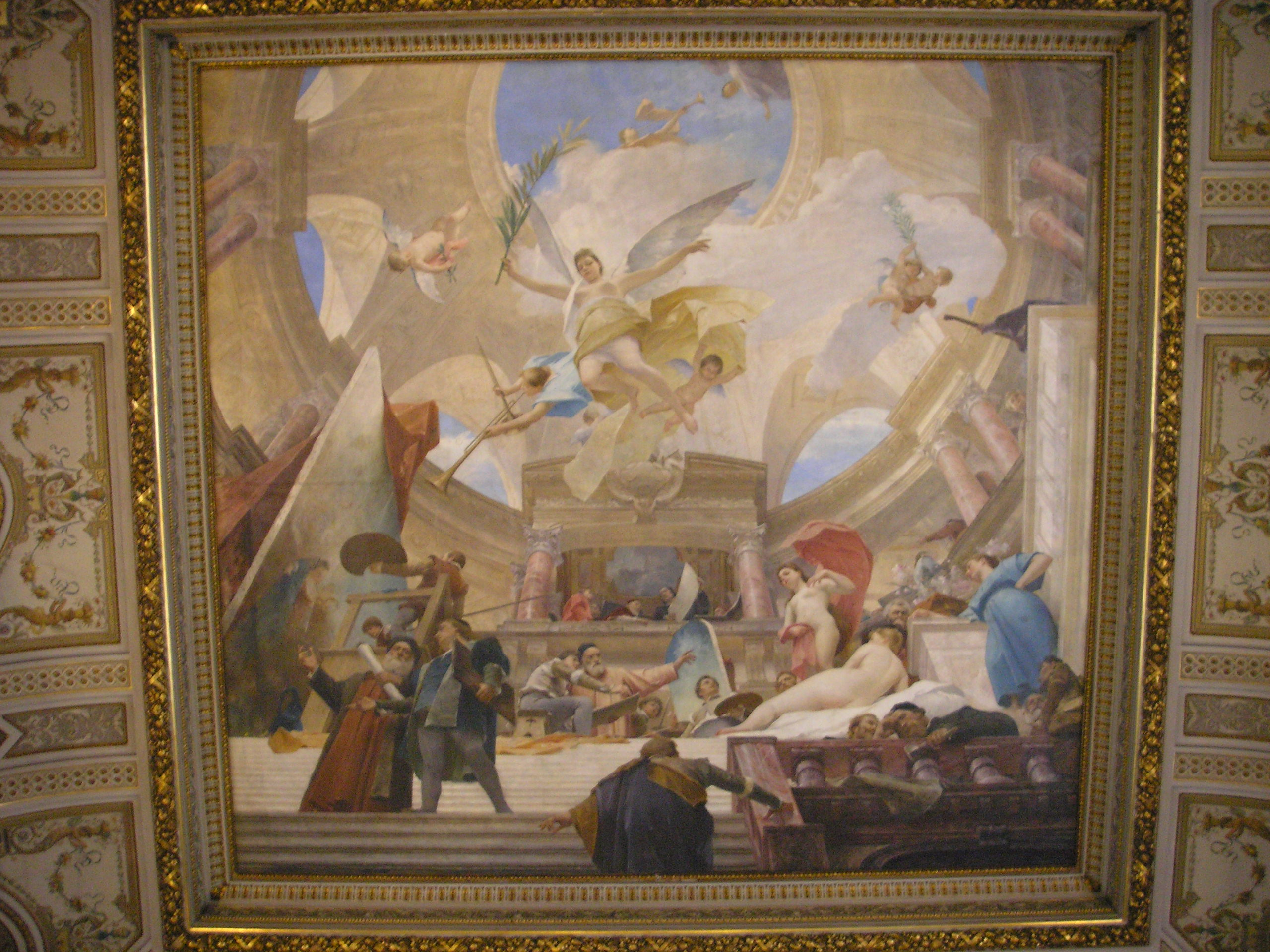 "The Apotheosis of the Renaissance", ceiling painting at the grand staircase, by Mihály von Munkácsy in the Kunsthistorisches Museum in Vienna.